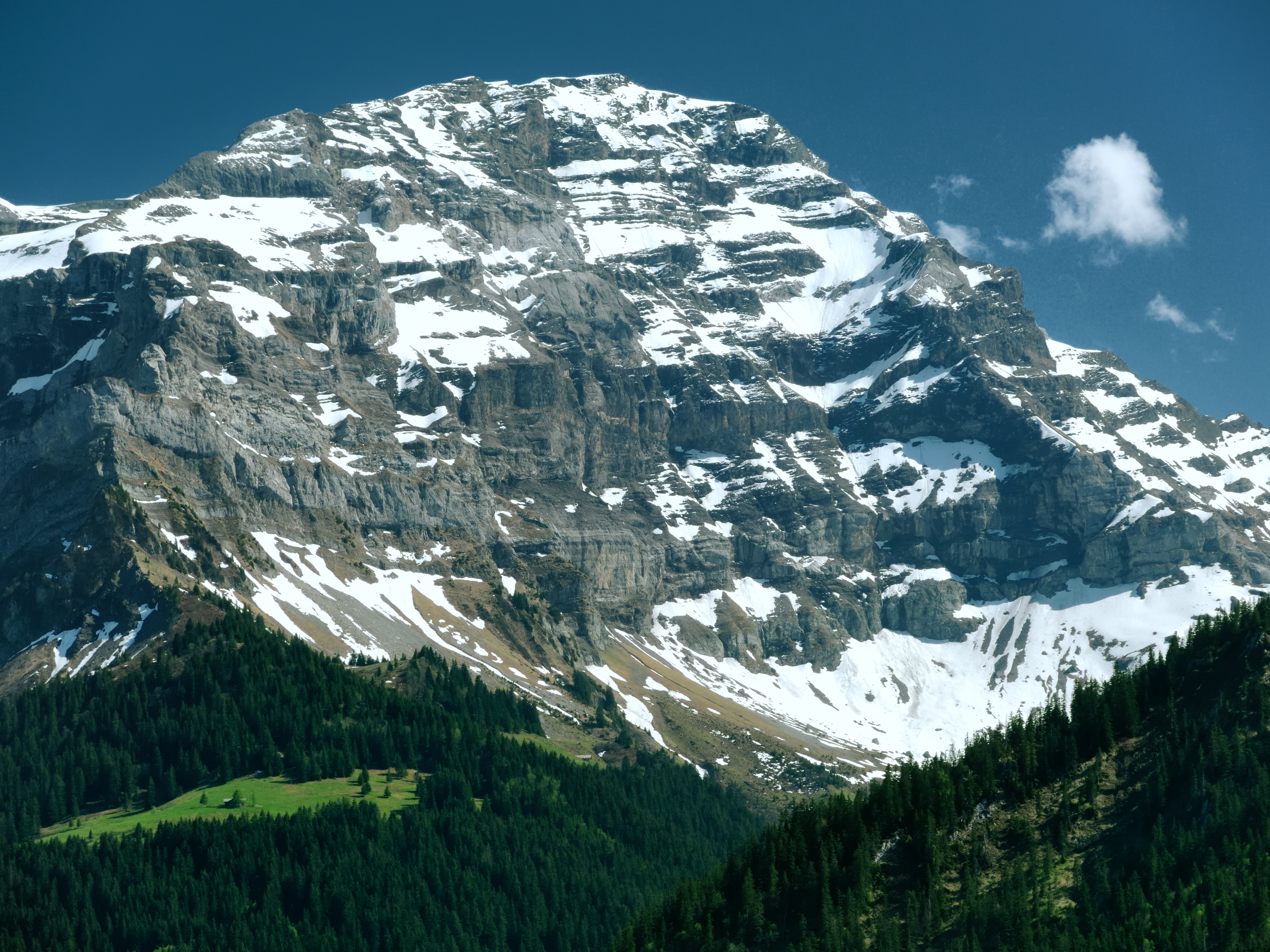 The Culan from above Les Diablerets